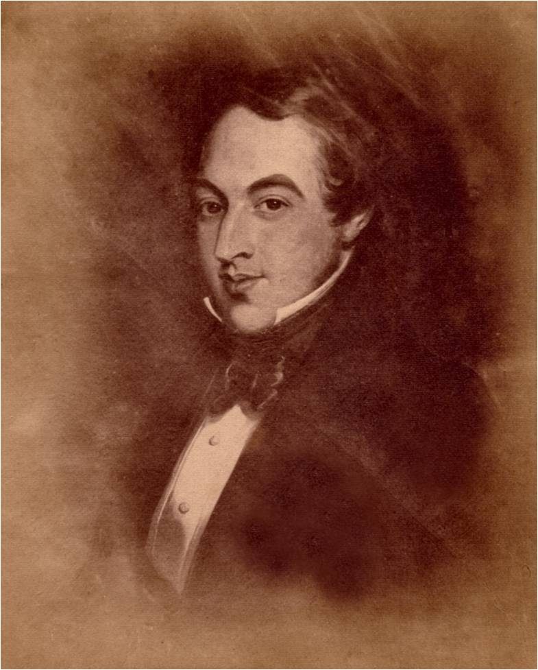 Prtrait of John Joseph Briggs, historian, as reproduced in Melbourne 1820-1875 A Diary by John Joseph Briggs Ed by Philip Heath pub. Derbyshire Hist Research Group 2005, ISBN 0-903463-78-4